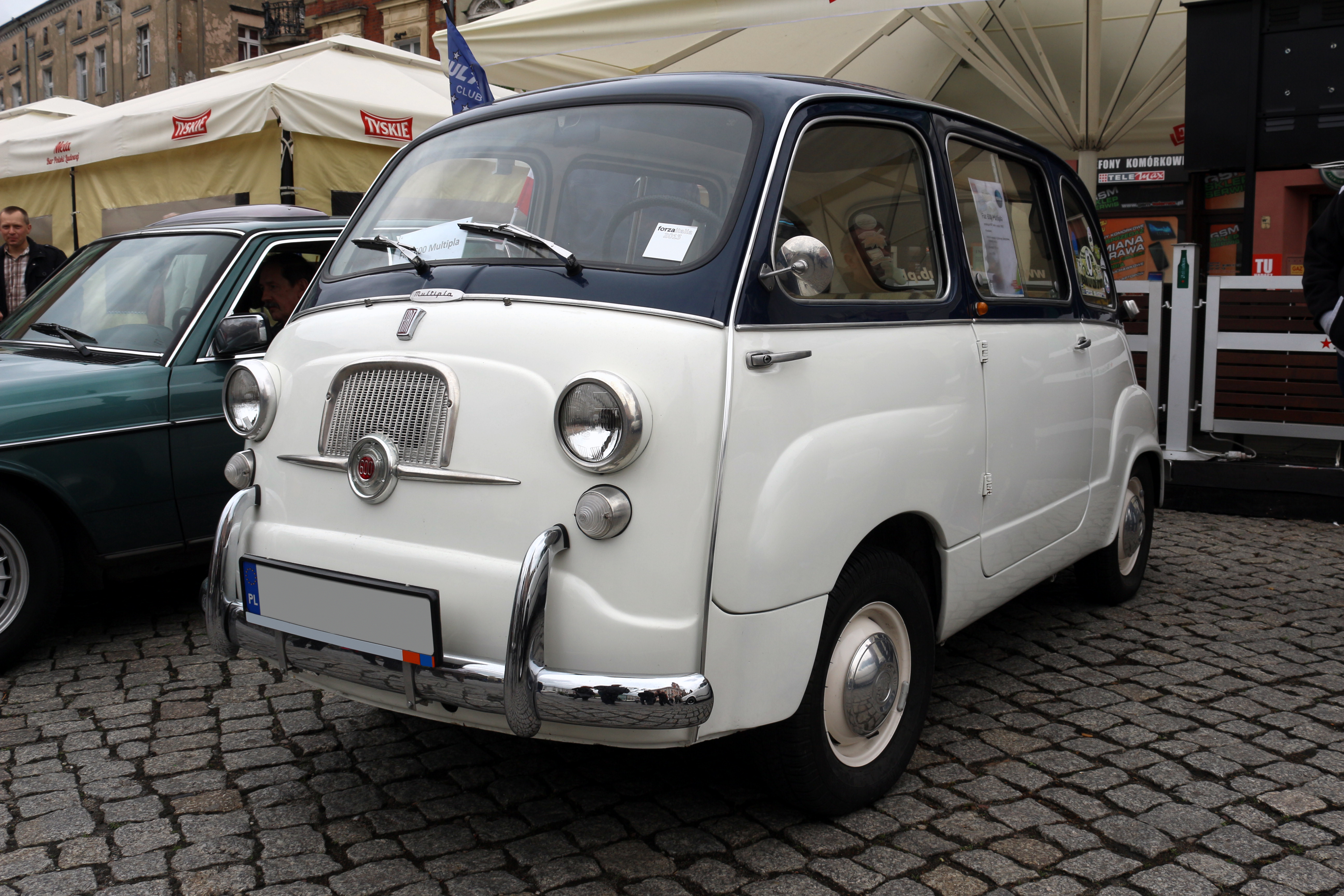 FIAT 600 Multipla 1963